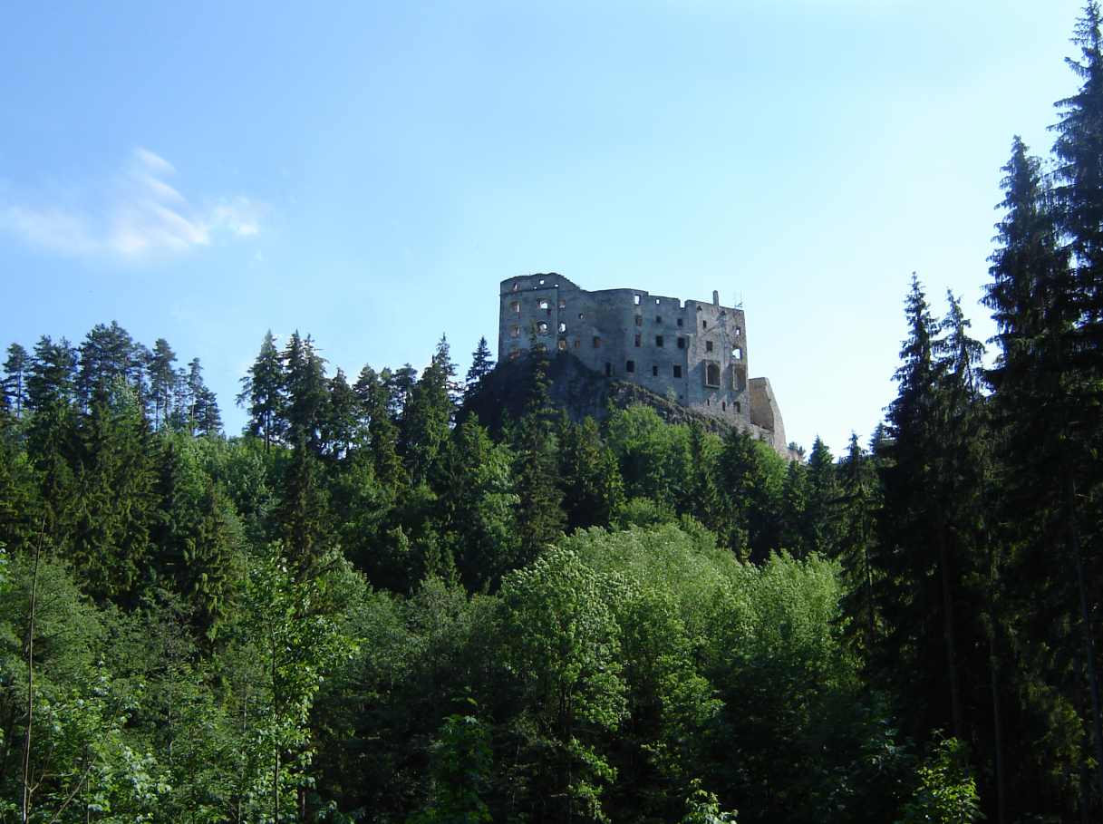 Likava (or Likavka) castle; Žilinaau region, north of Slovakia.